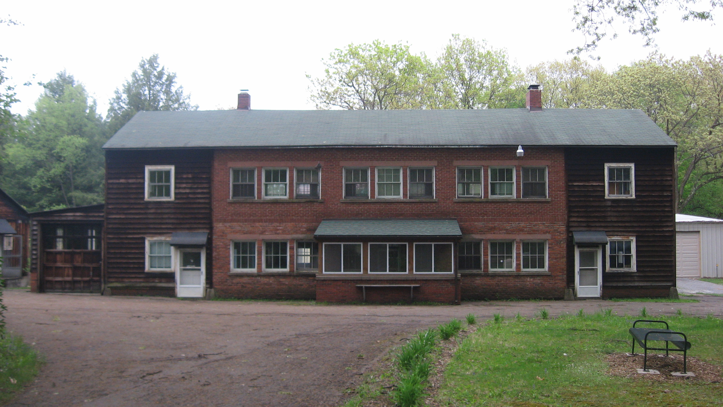 One of the buildings at the Preston Laboratories property (now a township park), located at 415 S. Eberhart Rd. southwest of Butler in Butler Township, Butler County, Pennsylvania, United States. The complex is listed on the National Register of Historic Places.